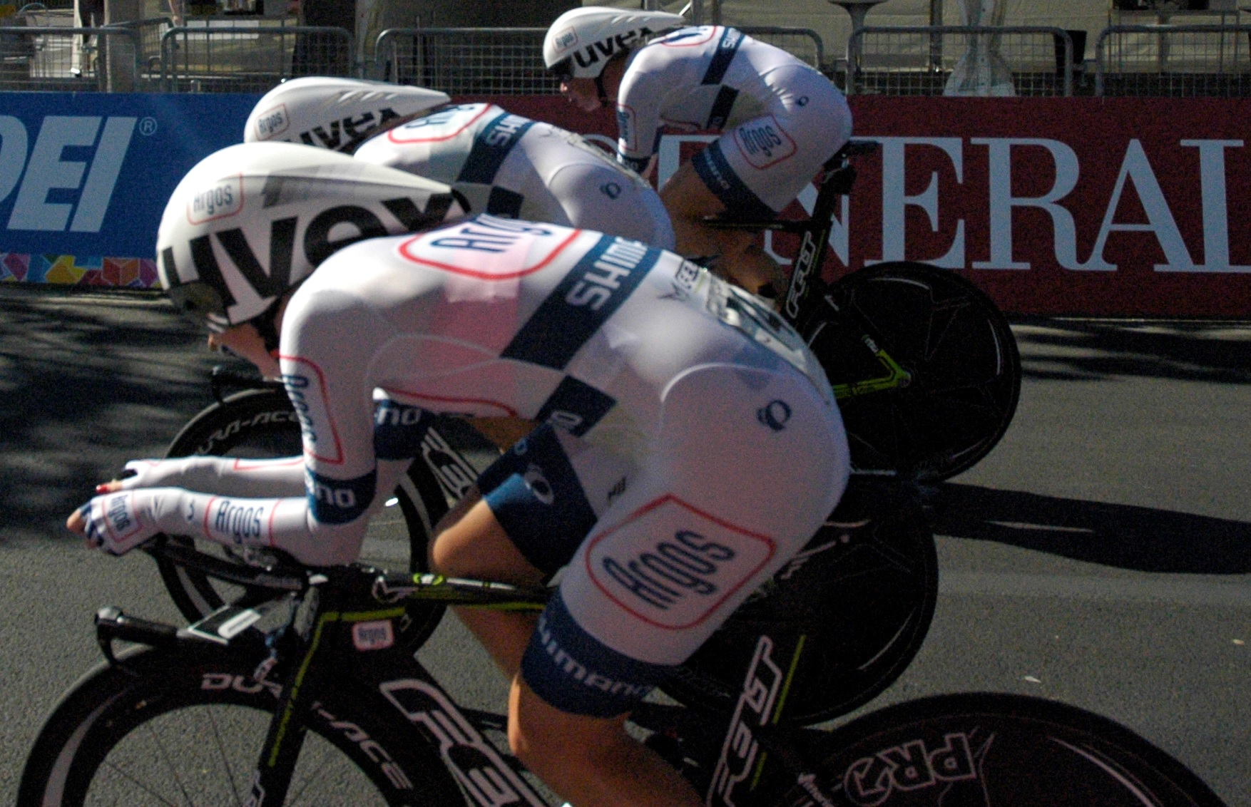 2013 UCI Road World Championships – Women's team time trial